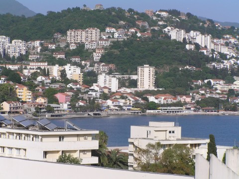 The view over Igalo and the Kotor Bay seen from Institute Igalo